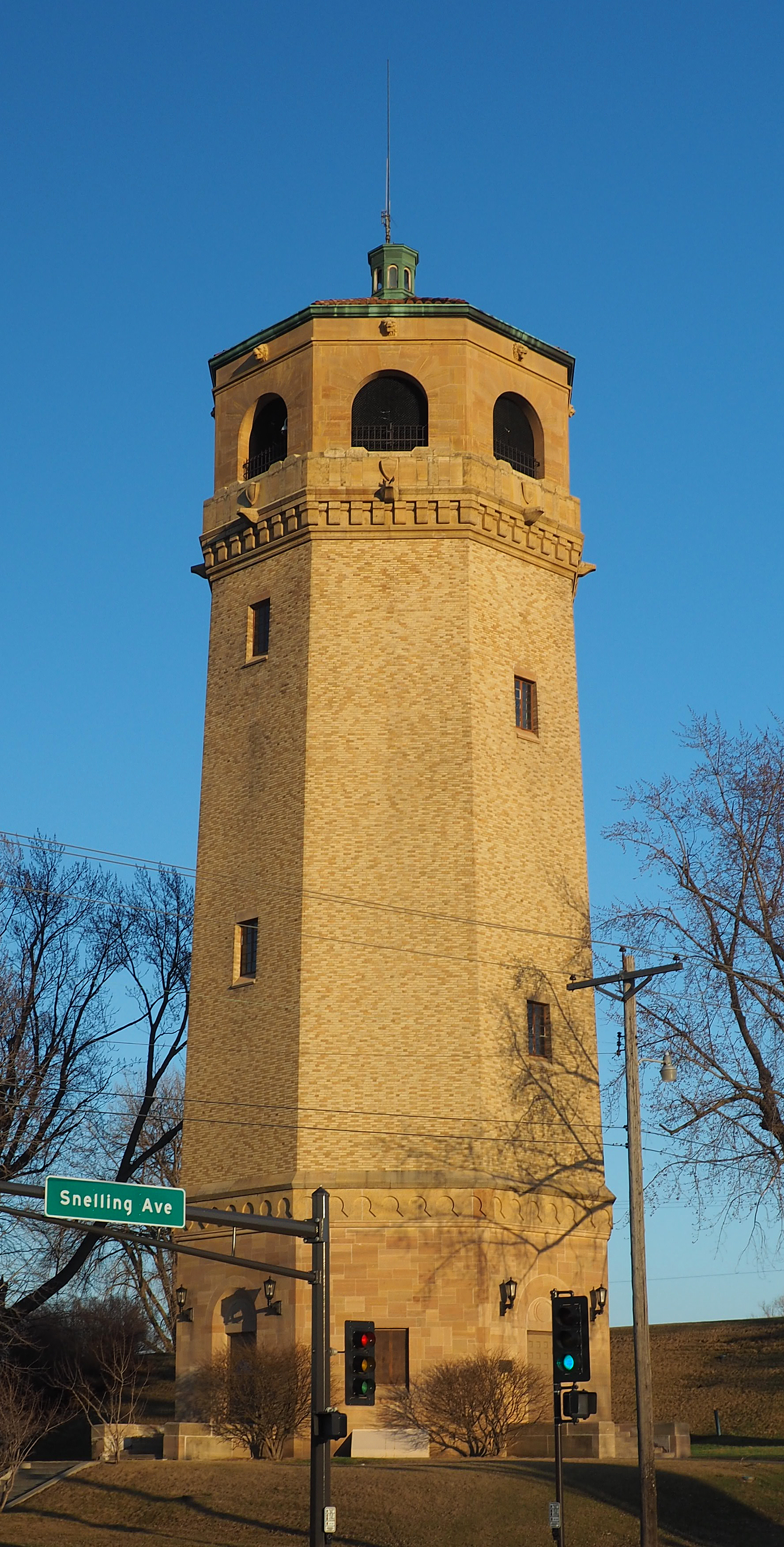 Highland Park Water Tower, 1570 Highland Pkwy, St Paul, Minnesota. USA. Viewed from the northwest.